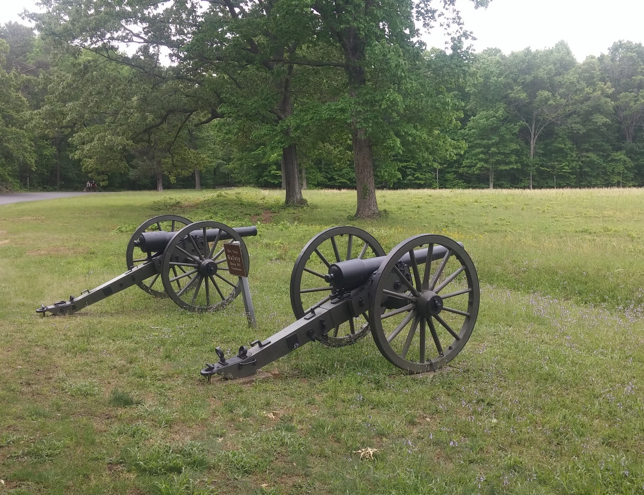 Confederate guns, captured by Upton at Spotsilvania